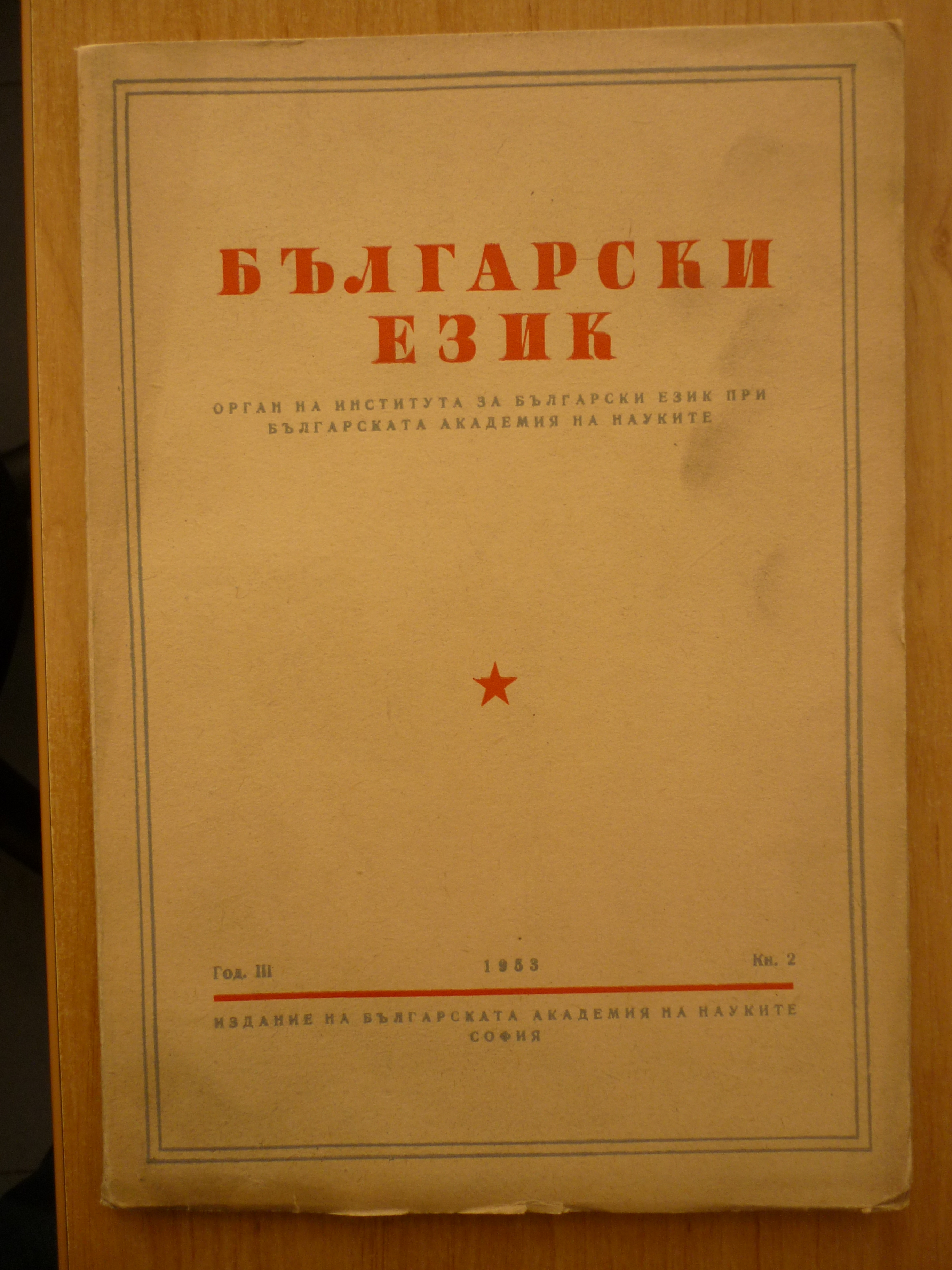 Cover of „Bylgarski ezik“ (Bulgarian Language) magazine, 1953, vol. 3, No2.